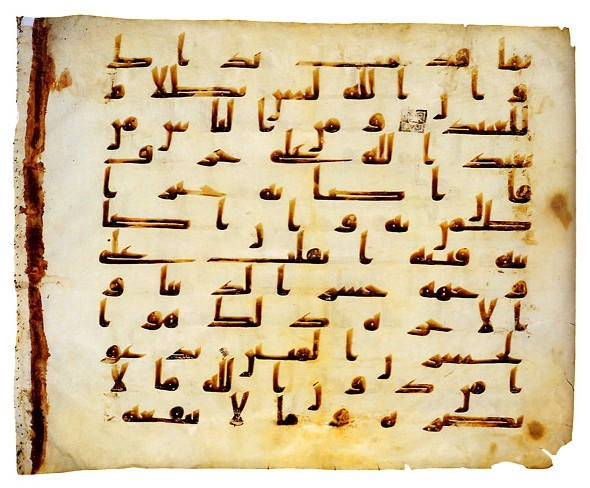 The ‘Uthman Qur'an is housed in Tashkent in Uzbekistan. This manuscript is also known as the Samarqand manuscript and the Tashkent (Samarqand) Qur'an. Script: Kufic. Part of Sura XXII, verses 9-11